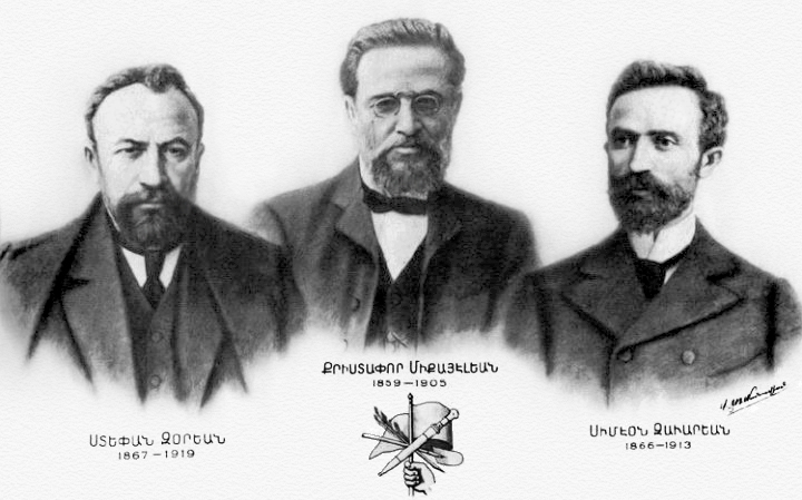 Iconic photo of founders of the Armenian Revolutionary Federation Stepan Zorian, Christapor Mikaelian, Simon Zavarian, picture taken late 1800s, Image scanned from the Armenian: Mihran Kurdoghlian, Badmoutioun Hayots, C. hador [Armenian History, volume III], Athens, Greece, 1996 pg. 34